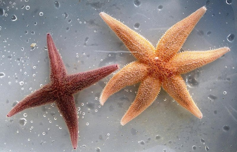 Asteria rubens with four and six arms